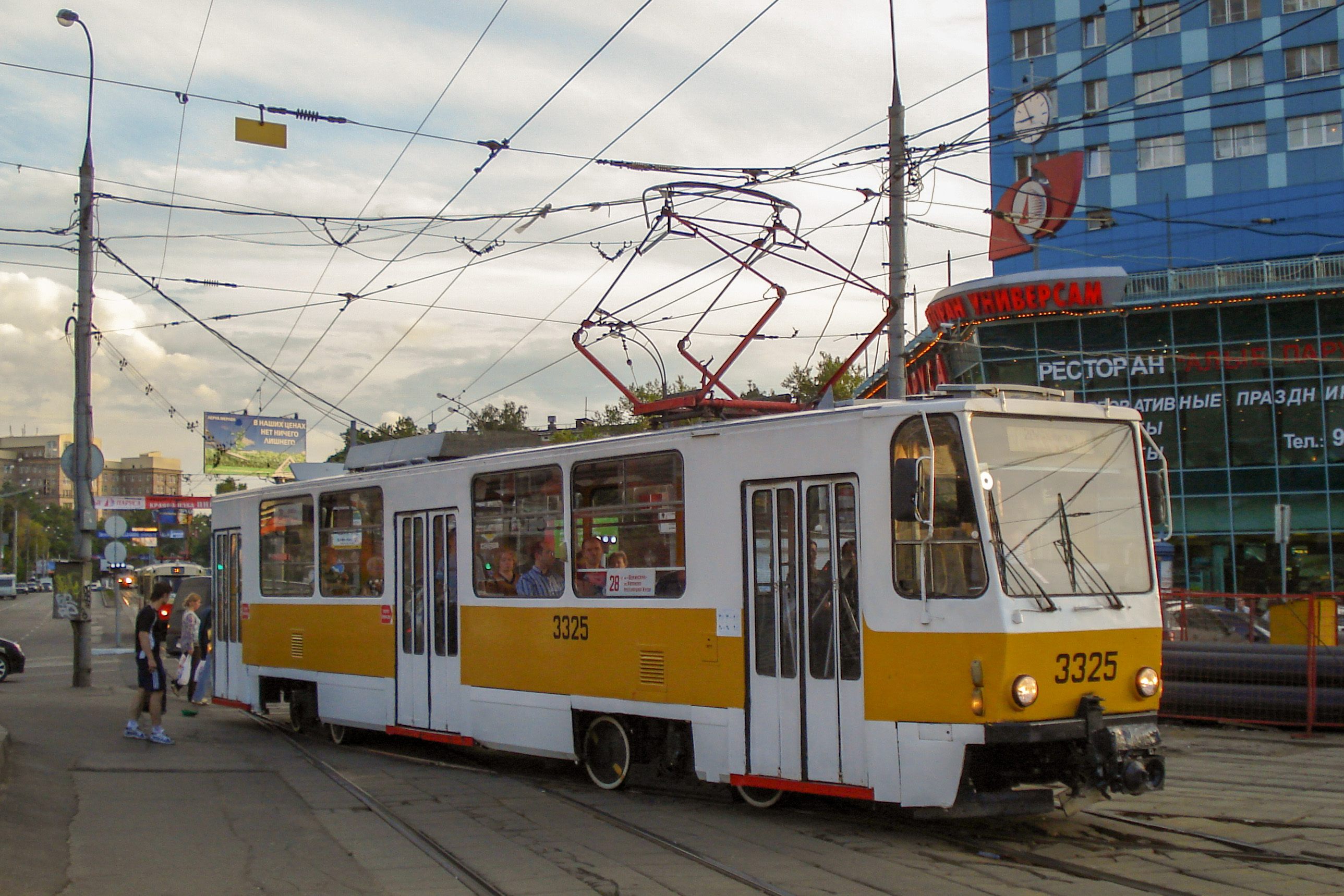 Tram T7B5 in Moscow in July 2008.